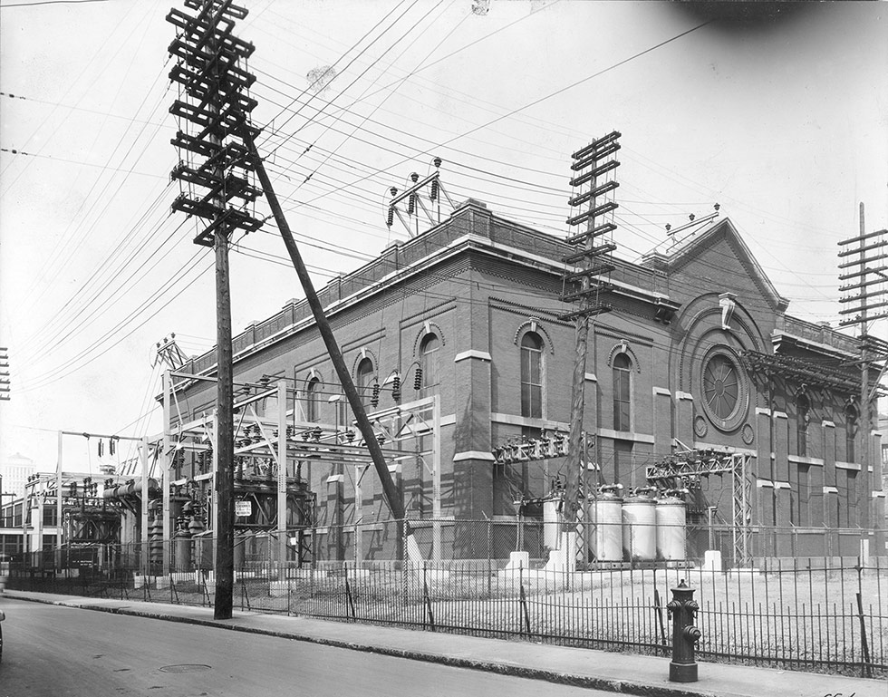 Built in the 1900s, the Central substation, on Wellington St. played an indispensable role in the Montreal electric grid. Source : Hydro-Québec archives, F9/700780.